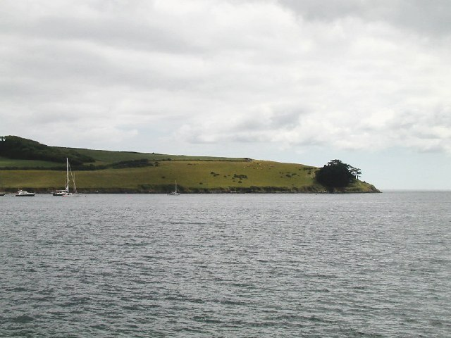 Carricknath Point. Seen from St Mawes